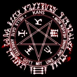 bla bla bla